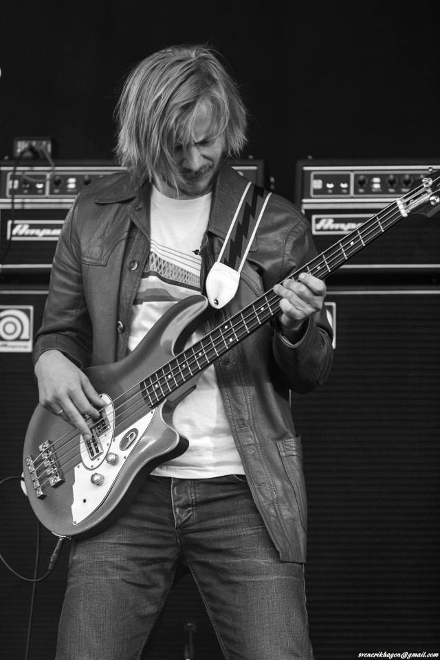 Åsmund Wilter Kildal Eriksson - photo Sven-Erik Hagen